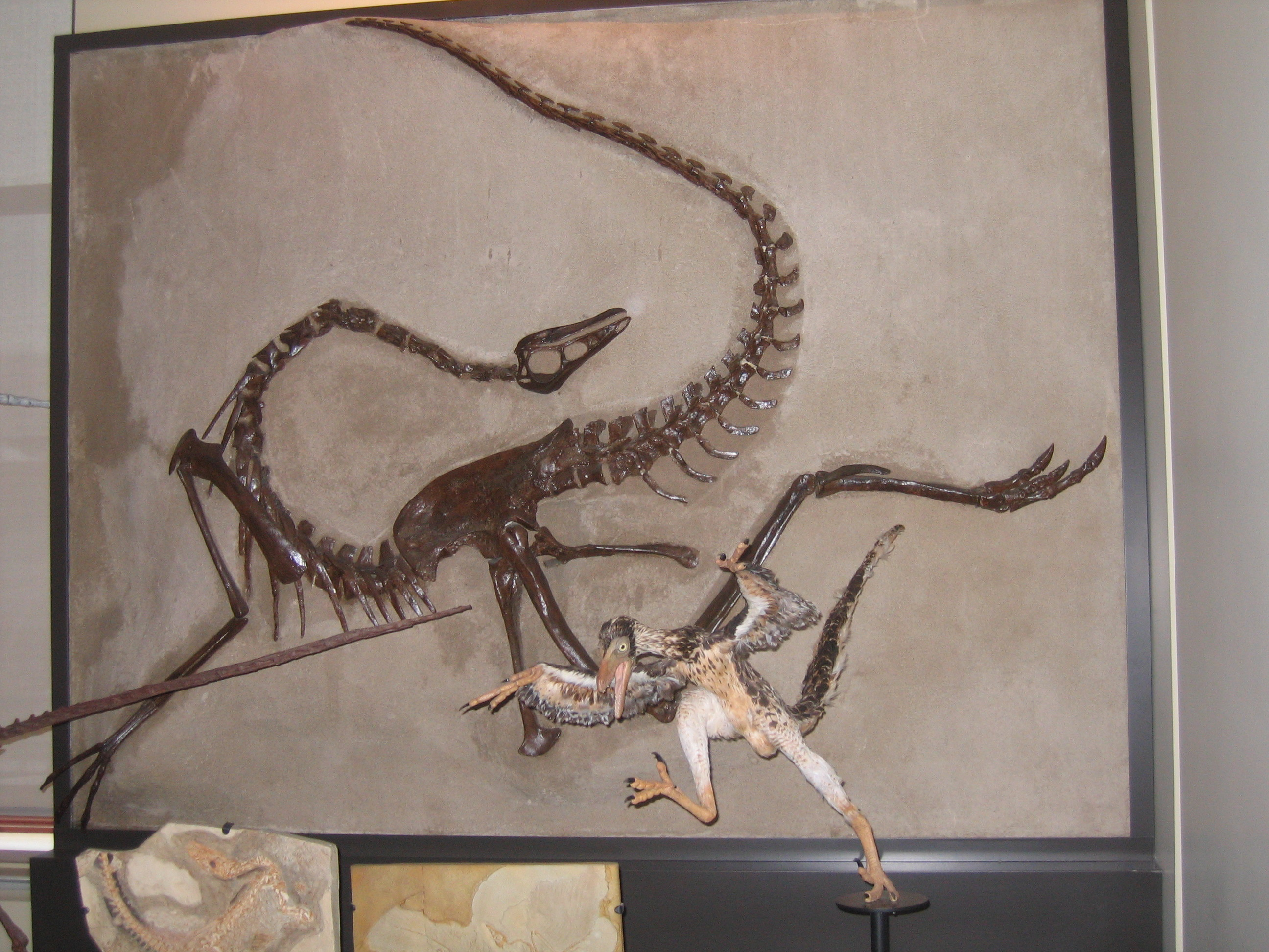 Dromiceiomimus skeleton and Sinotnithosaurus model. Photo taken at Canadian Museum of Nature Fossil Gallery on Mar. 15, 2008